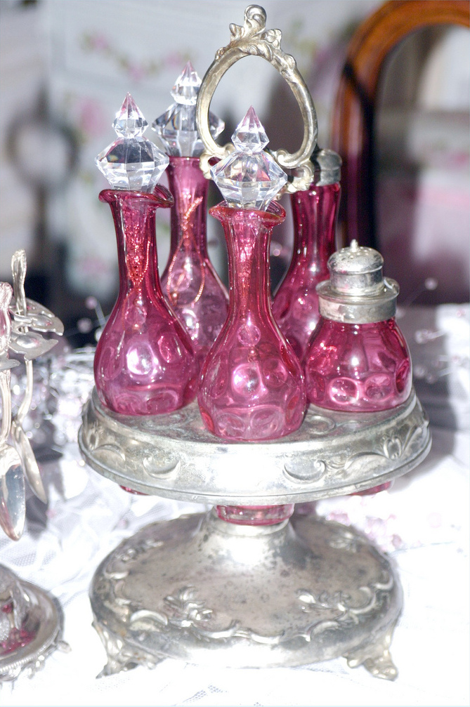 I almost fainted when I saw this sitting in the antique shop!! It is very Victorian and the bottles are real cranberry glass! the original caps are on 2 of the jars but the 3 taller ones were missing so I had to improvise!